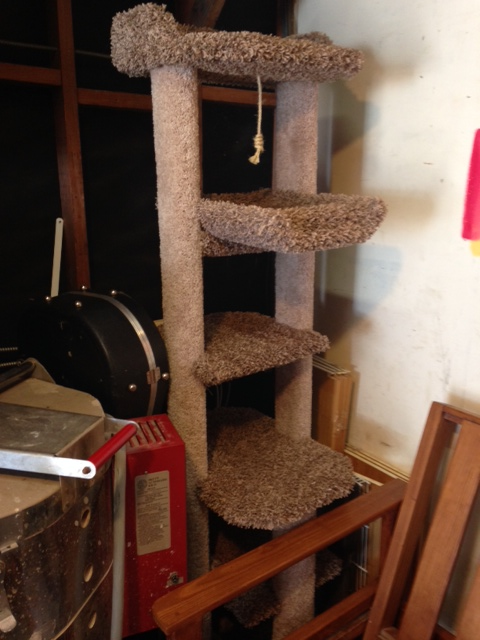 6 foot tall cat scratching post